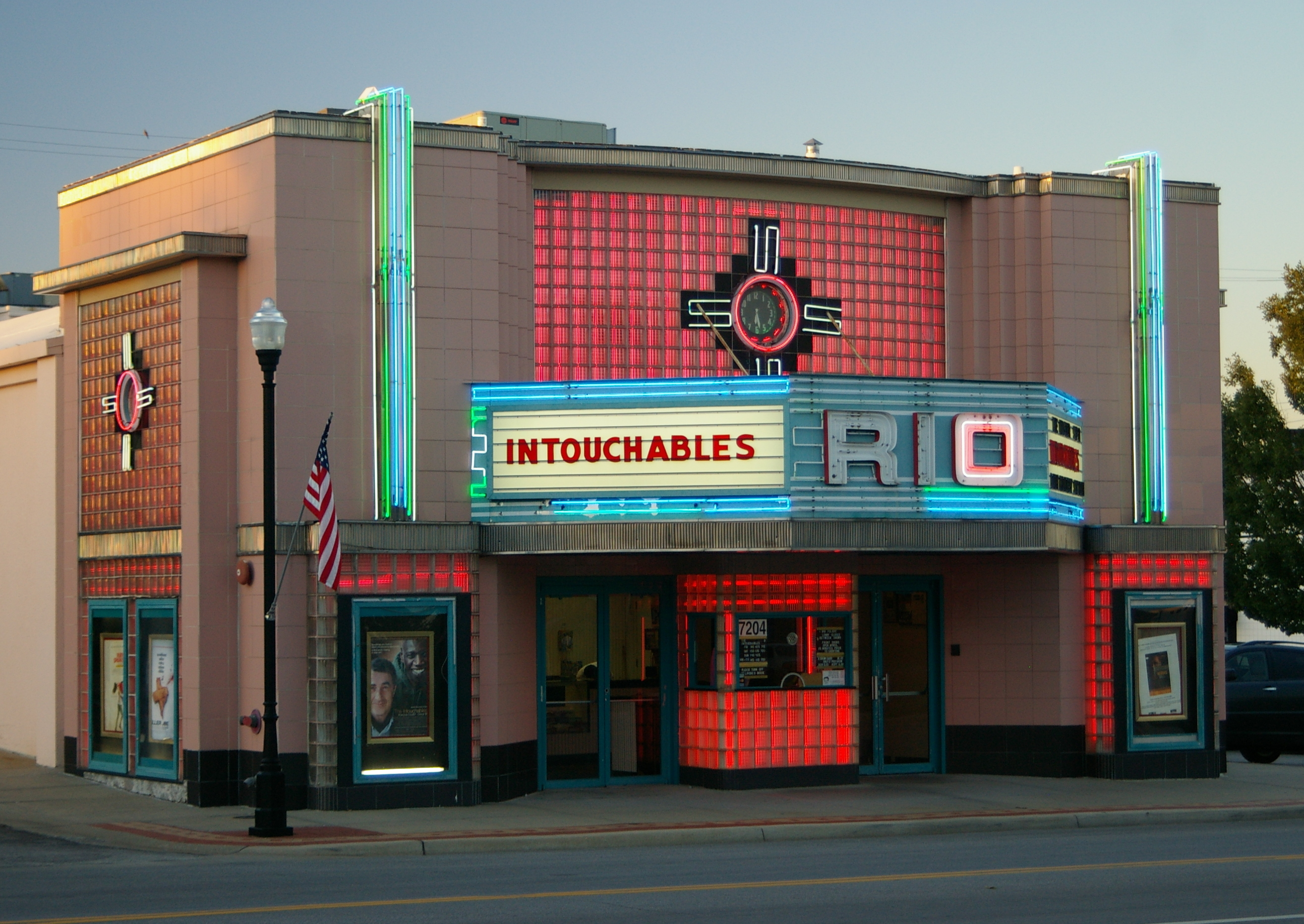 Overland Theater 7204 W. 80th St. in Overland Park, Kansas. The Art Deco cinema was built in 1946; the building was purchased in 1988 by the city for preservation purposes. It opened as The Rio Theatre in 2000. In September 2012 the French film Intouchables was on the marquee.